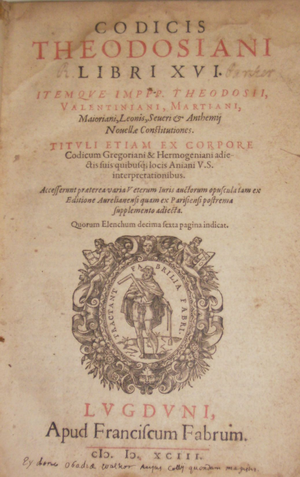 Codicis Theodosiani Libri XVI, 1593.